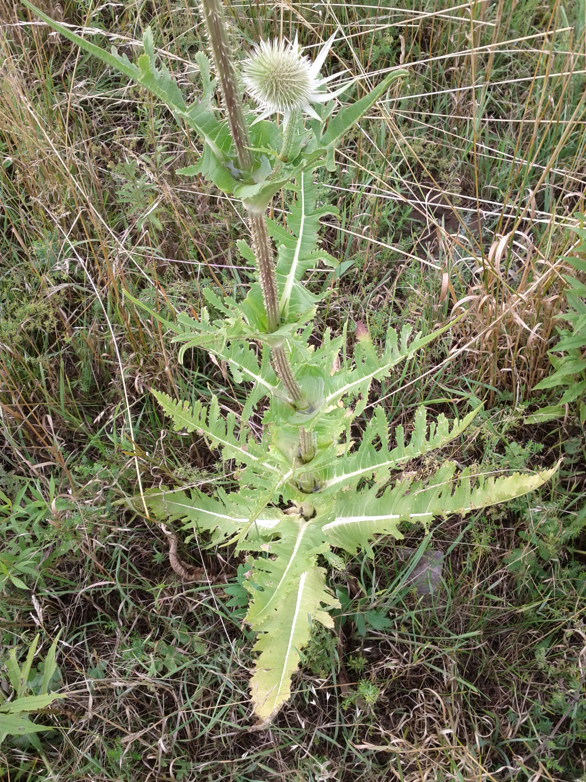 Stipe with leaves Taxonym: Dipsacus laciniatus ss Fischer et al. EfÖLS 2008 ISBN 978-3-85474-187-9 Location: near Alte Schanzen, Floridsdorf, Vienna - ca. 225 m a.s.l. Habitat: fallow land